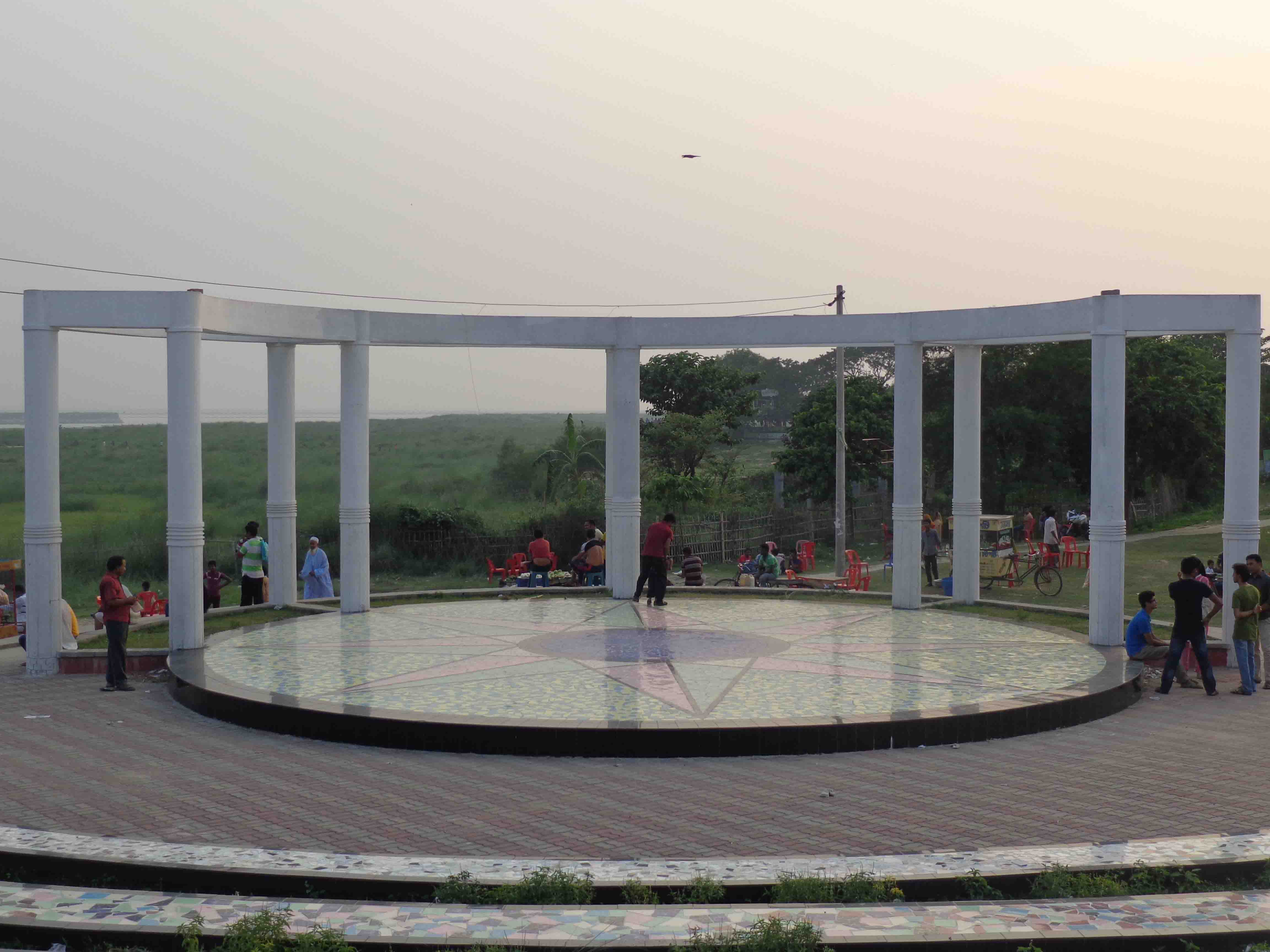 Lalon Shah Park is a open park and place of interrest in Rajshahi, Bangladesh.